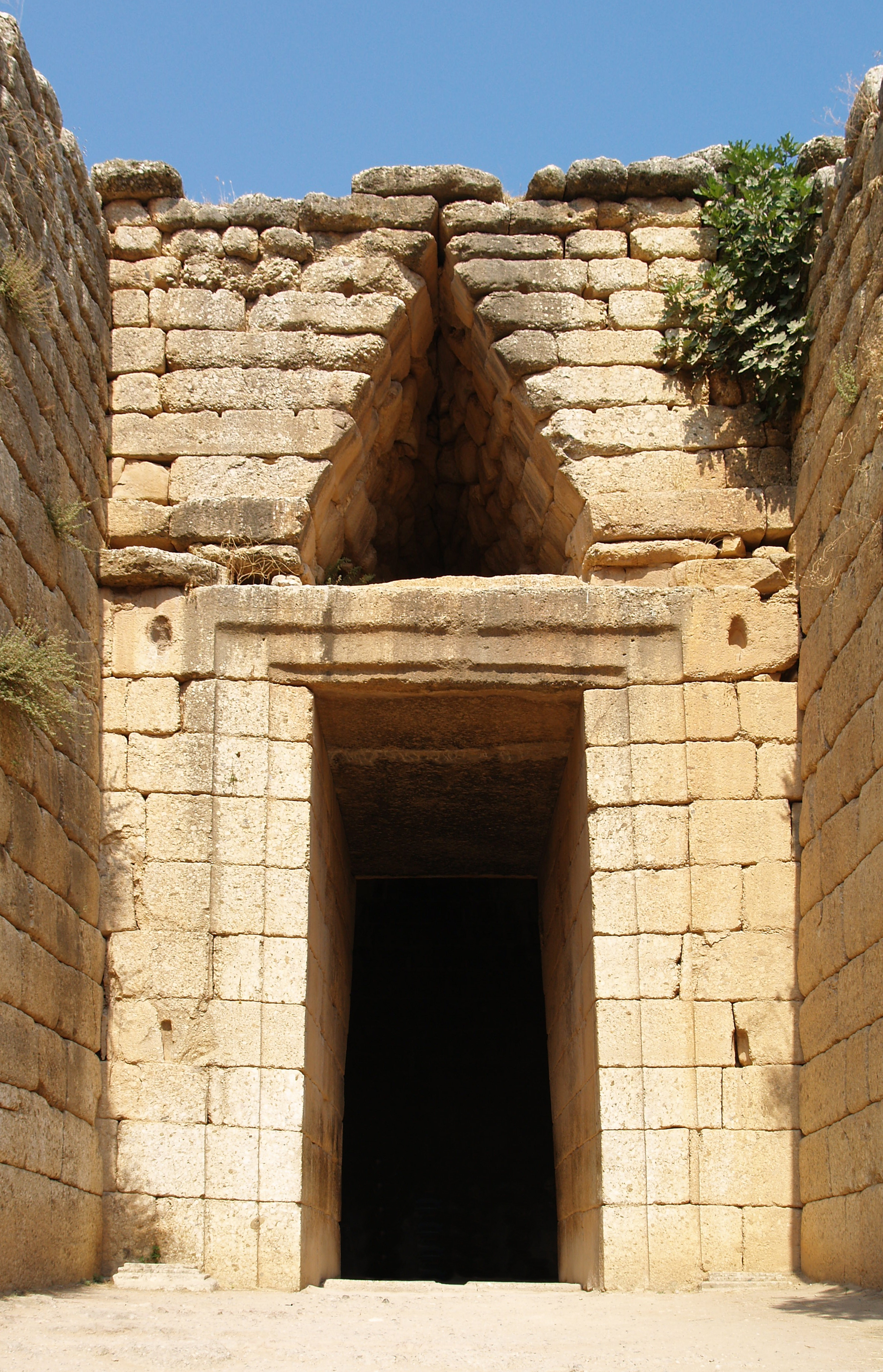 Corbelled arch, Entrance to the Treasury of Atreus, Mykene, Greece.